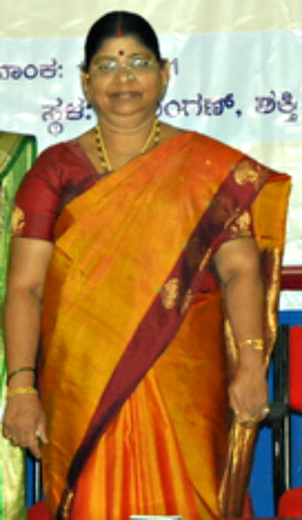 Rajani Duganna, Mayor of Mangalore from 26 February 2010 to 28 February 2011. This image was cropped from its original in the mentioned source.